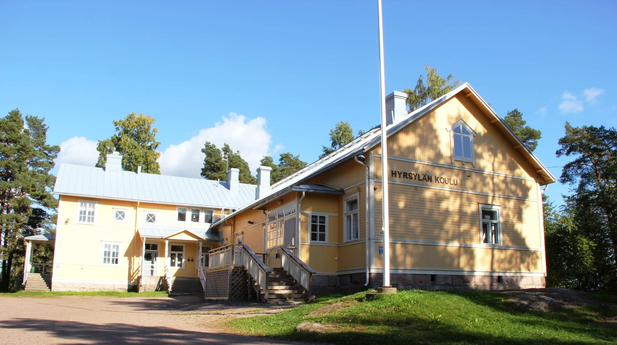 Hyrsylä school, Hyrsylä, Nummi-Pusula, Finland